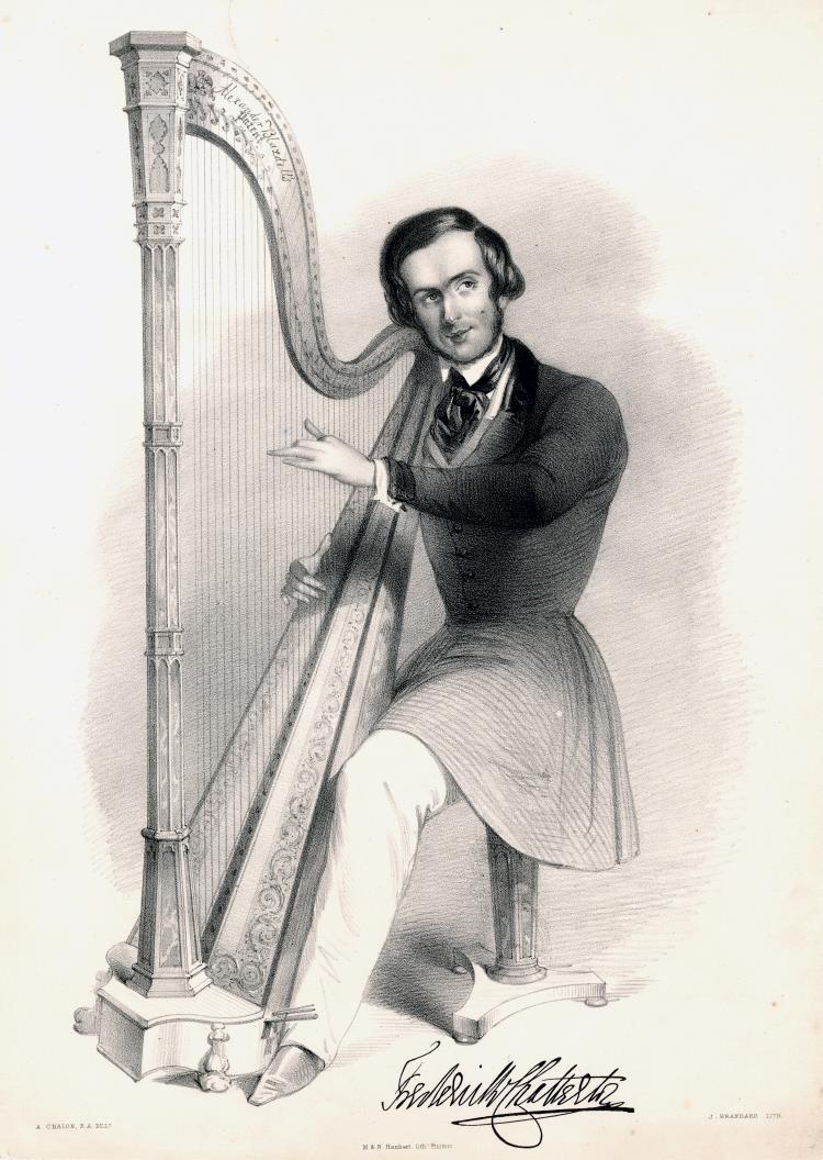 Portrait of harpist Frederick Chatterton (1814-1894) as a young man; full length; seated to left, playing harp; after A Chalon; with facsimile of signature; illustration to 'Book of Beauty' (1844). Lithograph